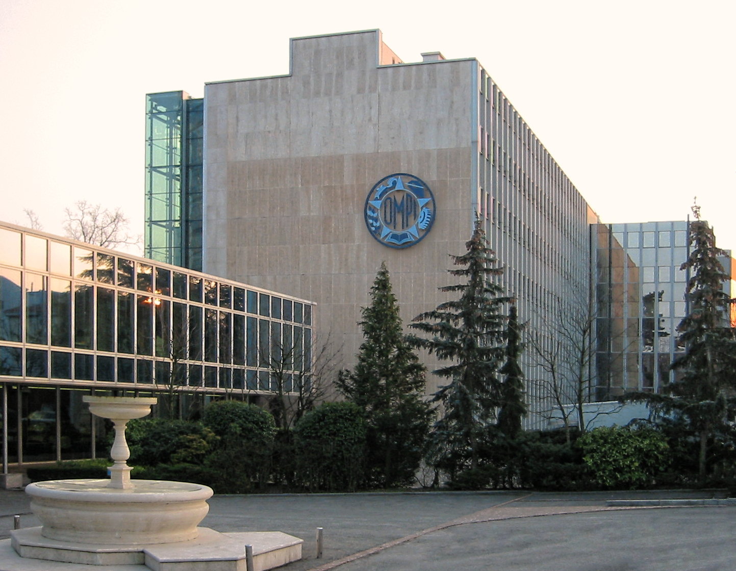 World Intellectual Property Organization (WIPO) Headquarters (the Georg Bodenhausen Building) in Geneva, Switzerland